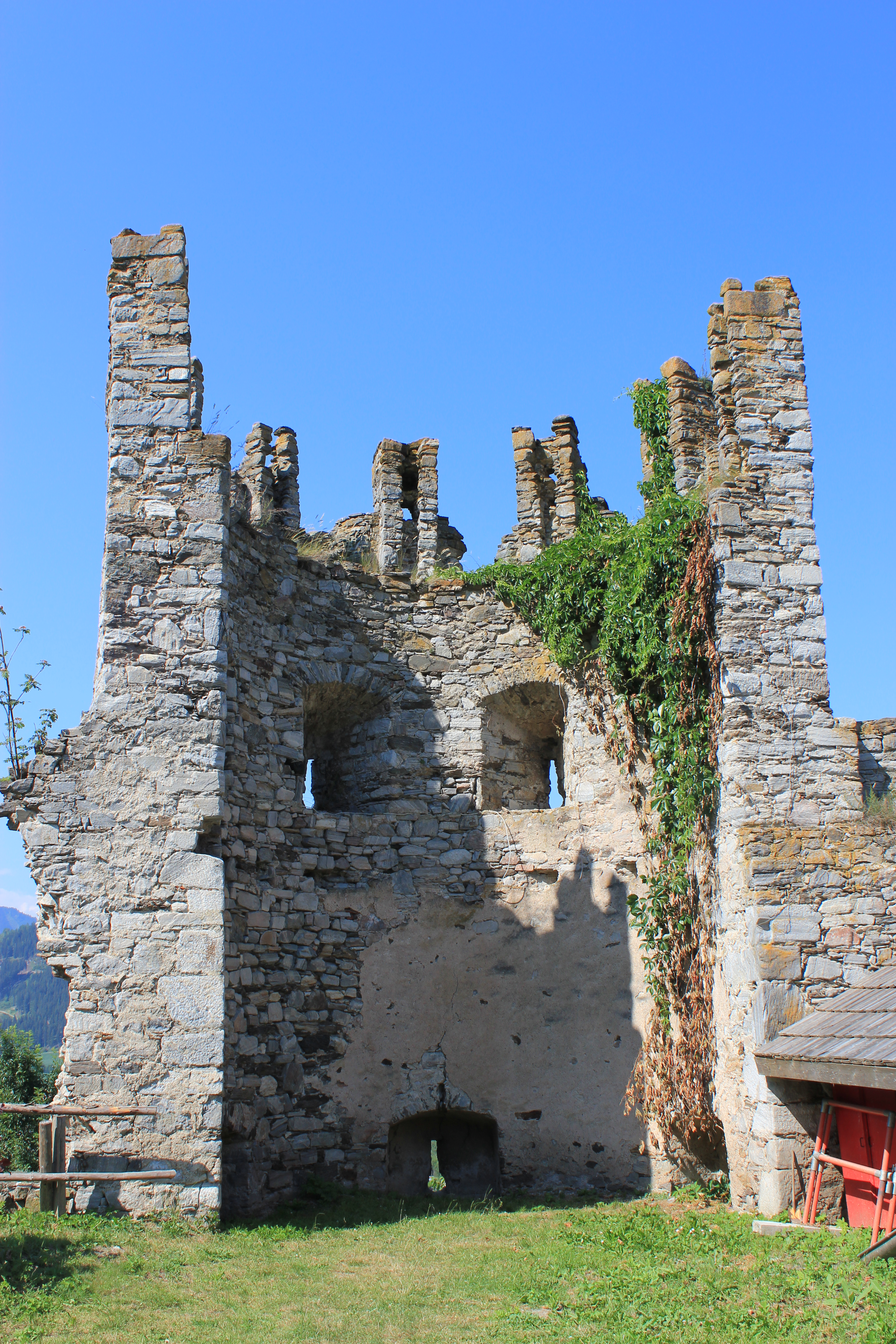 Horseshoe-shaped tower at the Petersberg in Friesach, Austria]